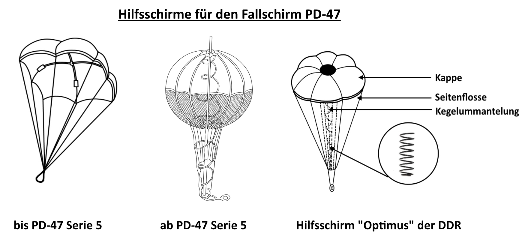 Pilot chutes which were used for the parachute PD-47 developed in Russia.